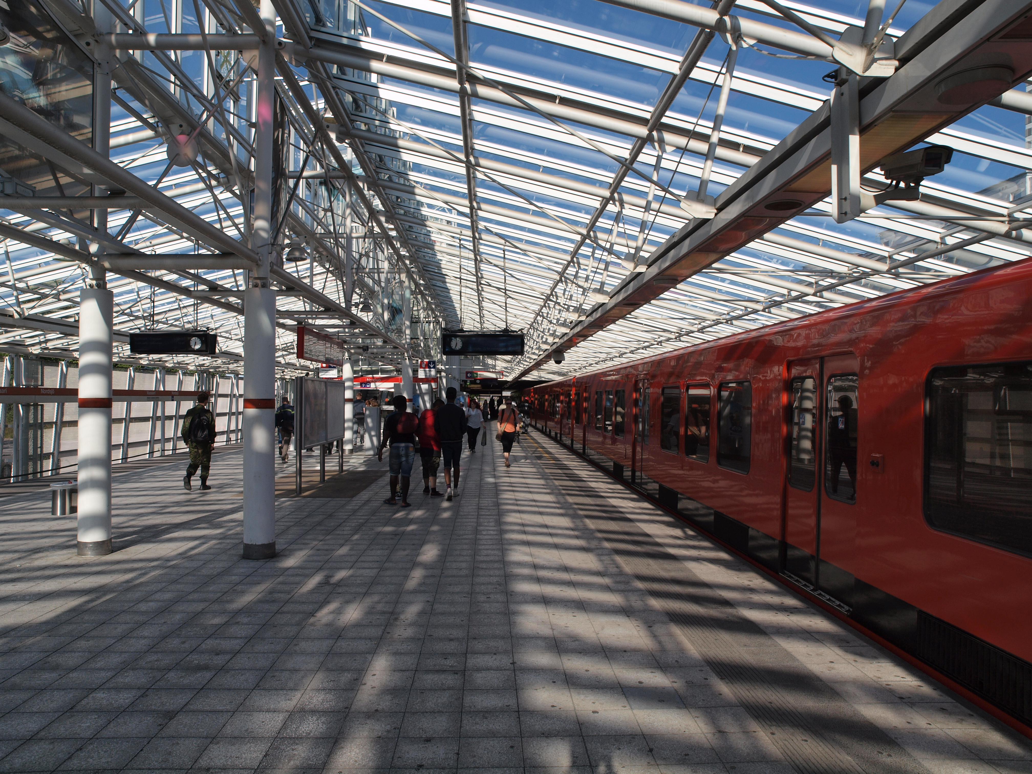 The Vuosaari metro station platform area, with a metro train having just come to the station to unload all its passengers (Vuosaari is a terminus station), in middle July 2015, during the XV World Gymnaestrada in central Helsinki. Vuosaari is quite a bit away from the city centre.